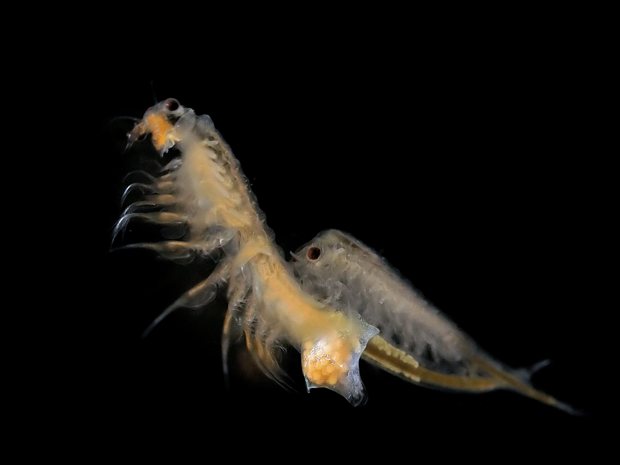 Brine shrimp. Laboratory picture